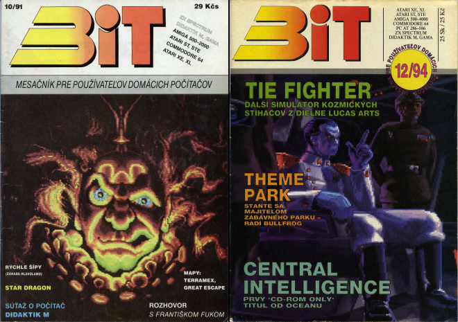 Title pages of the First and the Last Issue of Bit Magazine by Ultrasoft